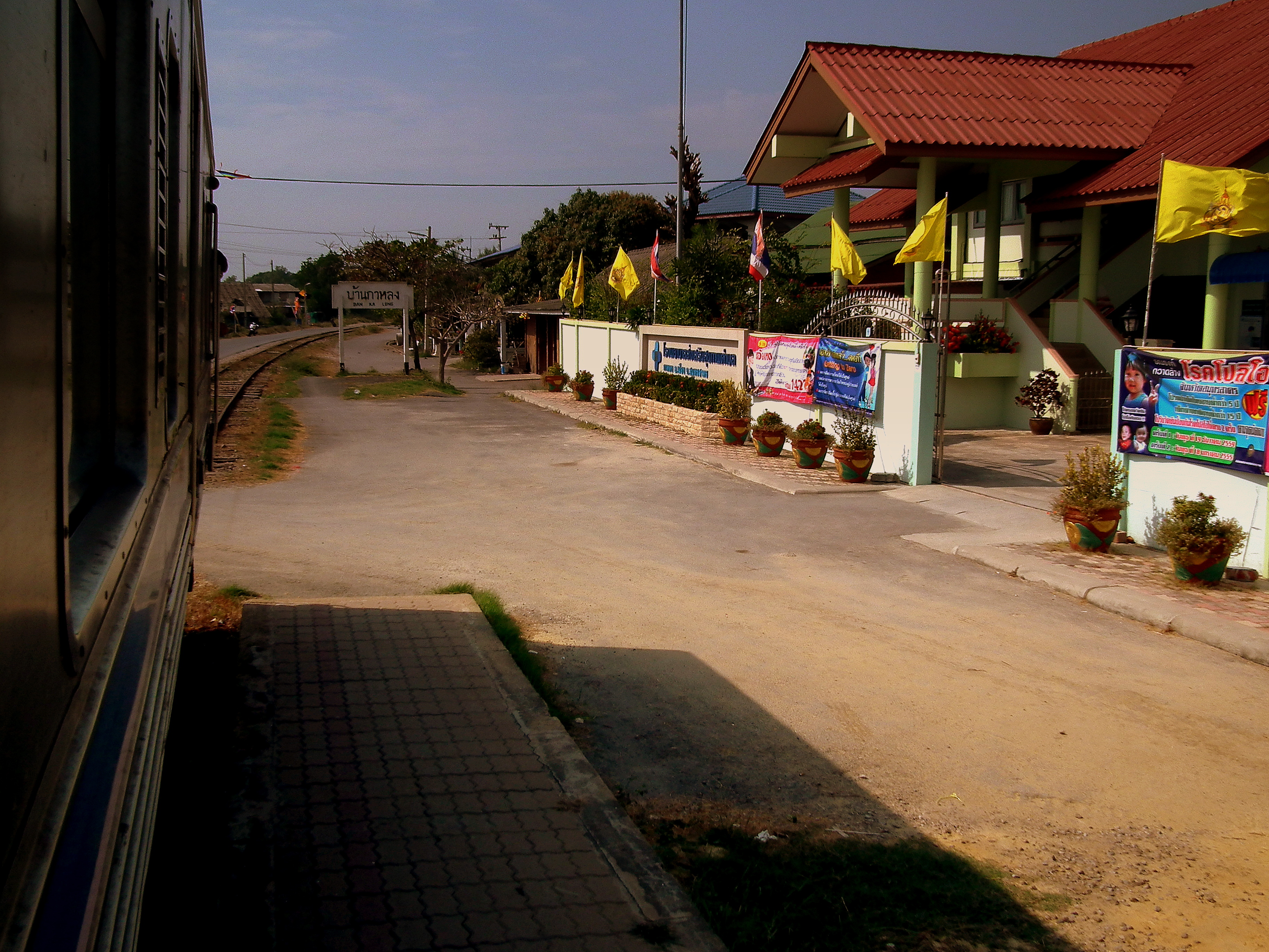 Ban Ka Long Railway Station WONWAIN YAI STATION BANGKOK TO MAEKLONG THAILAND JAN 2012